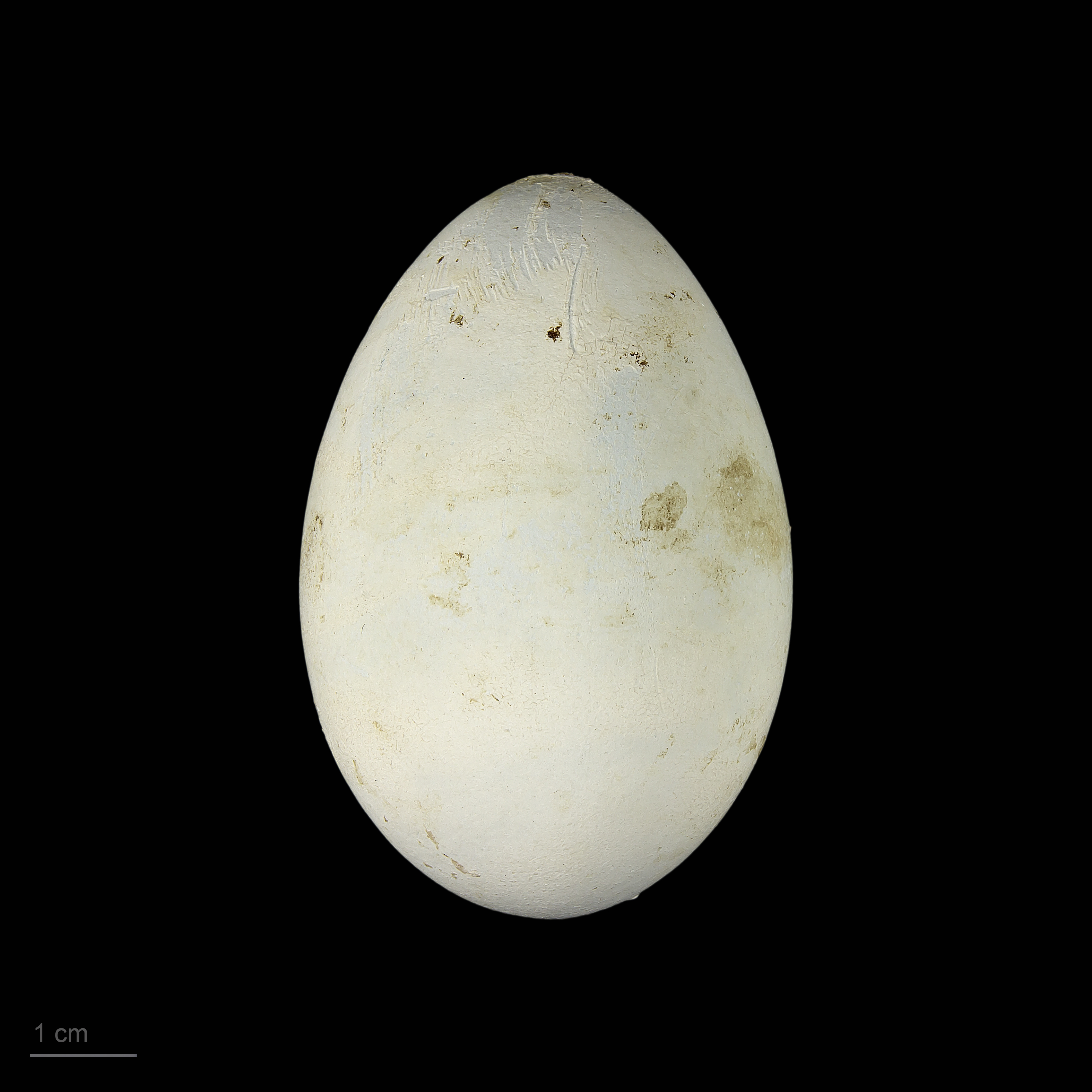 Eggs of masked booby collection of Jacques Perrin de Brichambaut.